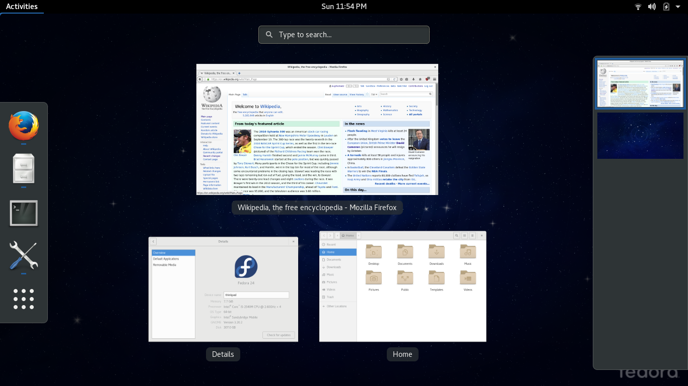 Fedora GNU/Linux operating system showing the overview screen in Gnome 3.20